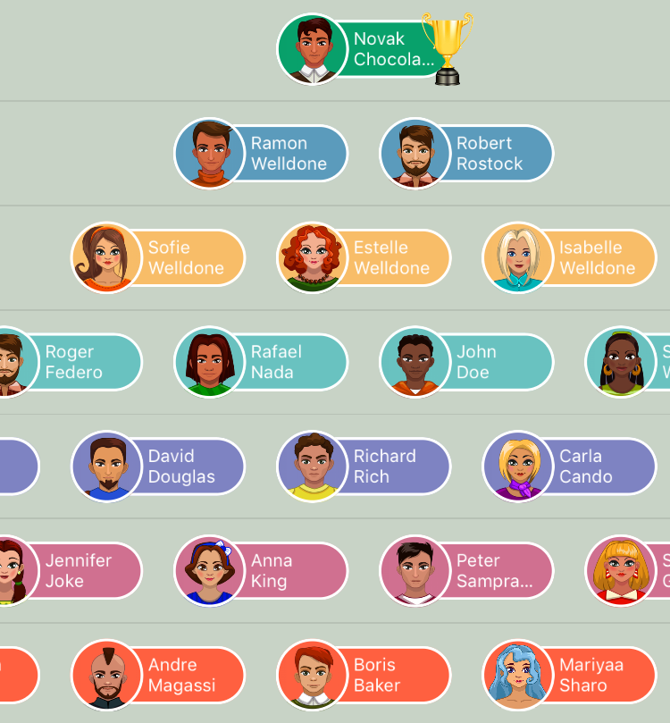 Example of a laddercompetition in a pyramid shape (portrait)